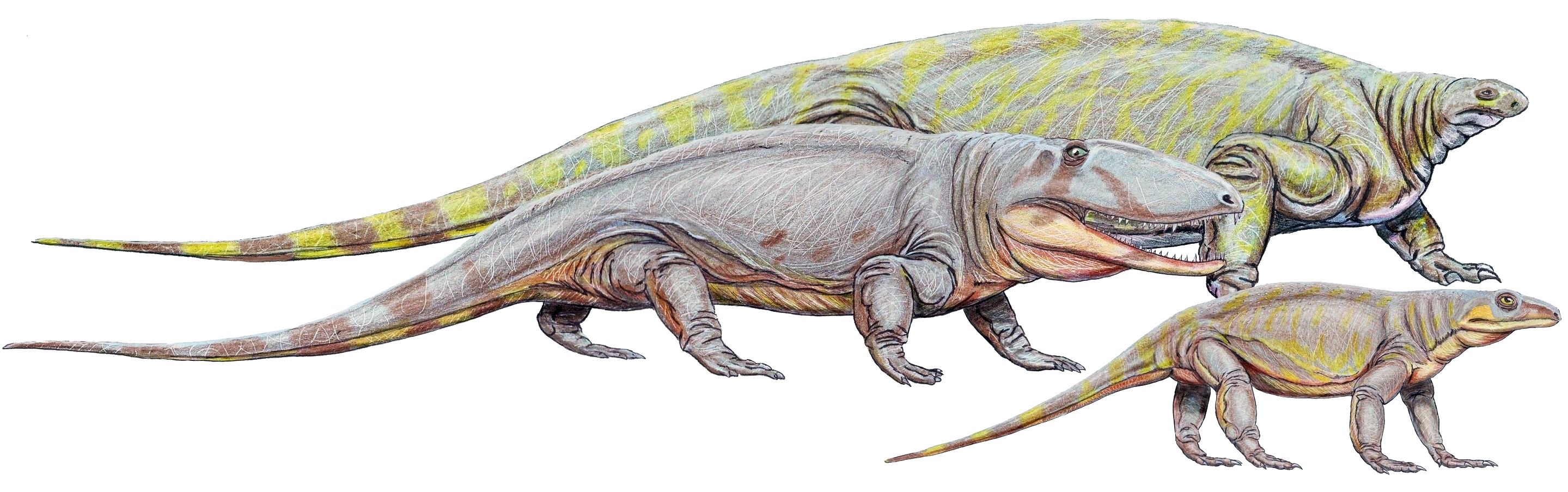 Representative Ophiacomorphs: Cotylorhynchus (background), Ophiacodon and Varanops.